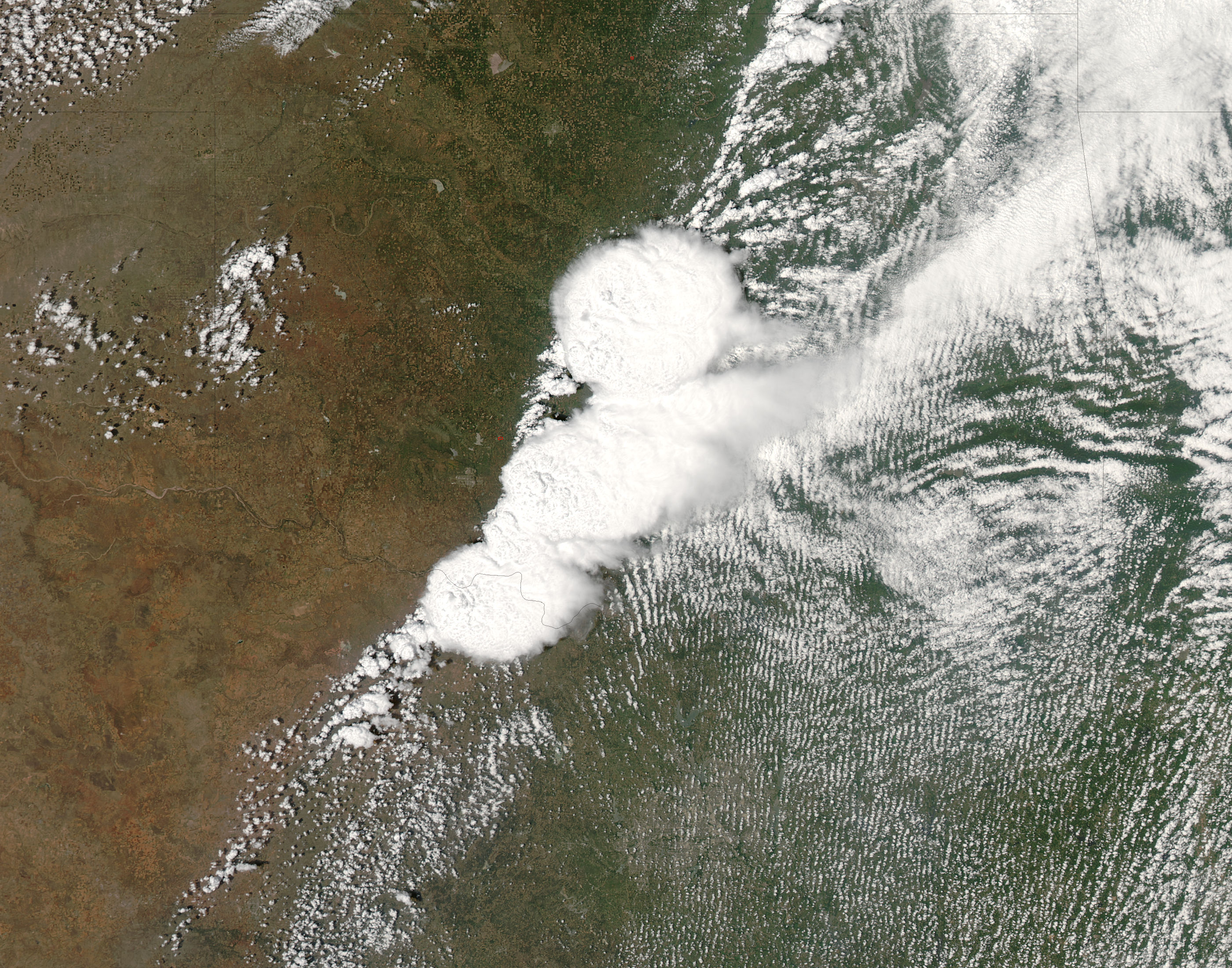 On May 20, 2013, a supercell thunderstorm in central Oklahoma spawned a destructive tornado that passed just south of Oklahoma City. The Moderate Resolution Imaging Spectroradiometer (MODIS) on NASA’s Aqua satellite acquired this natural-color image of the storm system at 2:40 p.m. Central Daylight Time (19:40 Universal Time), just minutes before the devastating twister began. The red line on the image depicts the tornado’s track. It touched down west of Newcastle at 2:56 p.m. and moved northeast toward Moore, where it caused dozens of deaths, hundreds of injuries, and widespread destruction to property and public buildings. The tornado had dissipated by 3:36 p.m., after traveling approximately 17 to 20 miles (27 to 32 kilometers). According to National Weather Service and media reports, the mile-wide tornado had a preliminary damage rating of EF-4, with winds reaching 190 miles per hour. It had a relatively slow forward speed for such a violent storm—about 20–25 miles per hour—likely exacerbating the damage. Debris from the tornado fell as far as 100 miles (160 kilometers) away, reaching the city of Tulsa.